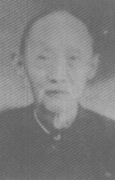 Zhang Ziqiao